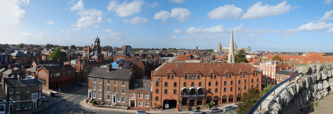 View from York Castle in York, England facing York Minster.